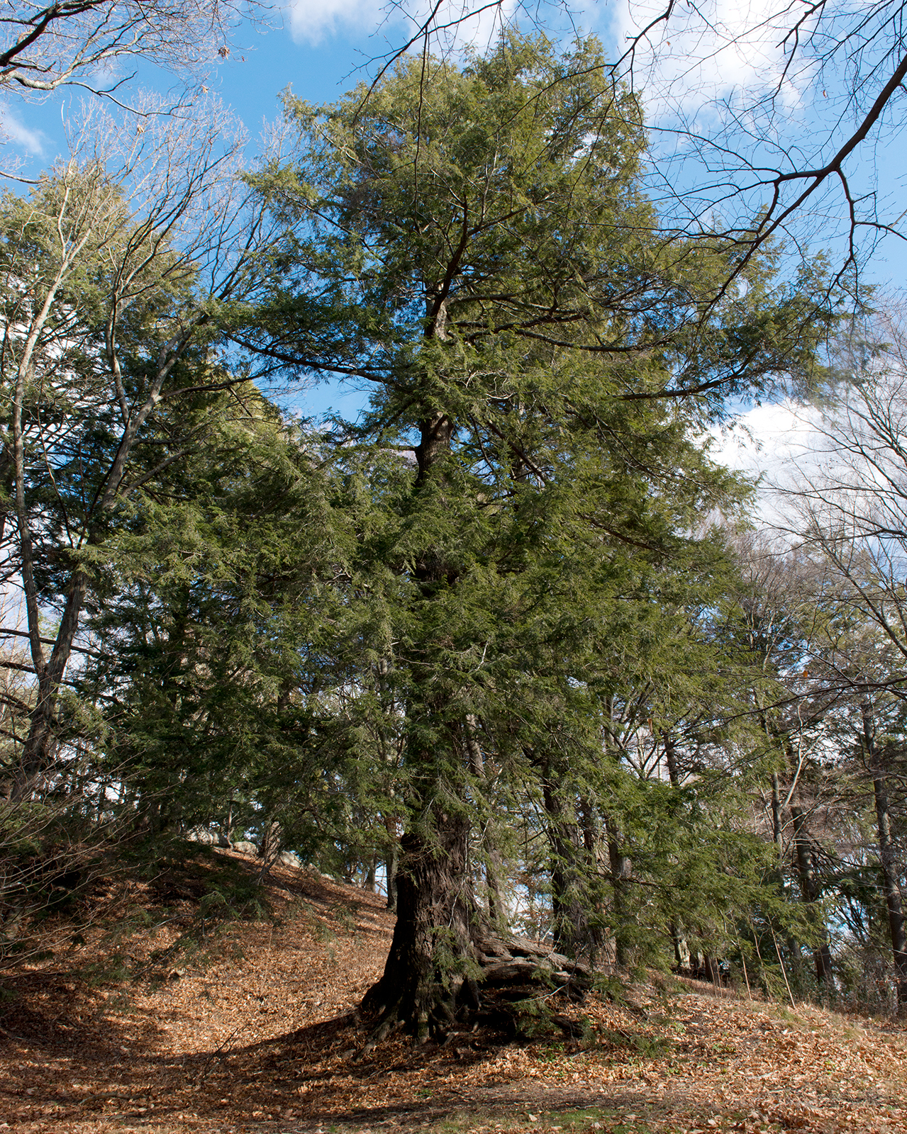 Tsuga canadensis (Canadian Hemlock)